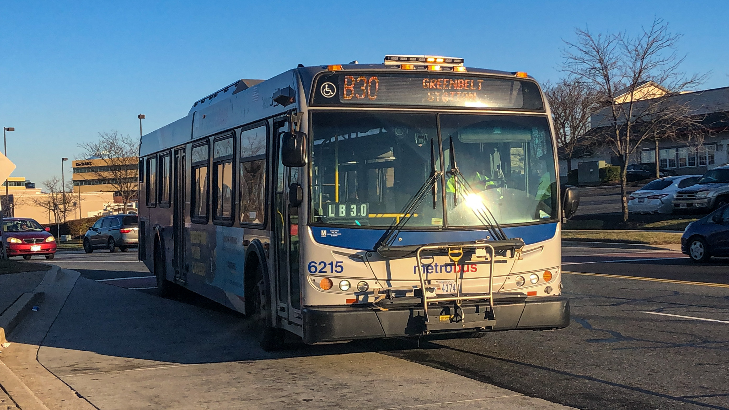 WMATA New Flyer D40LFR 6215 on Route B30